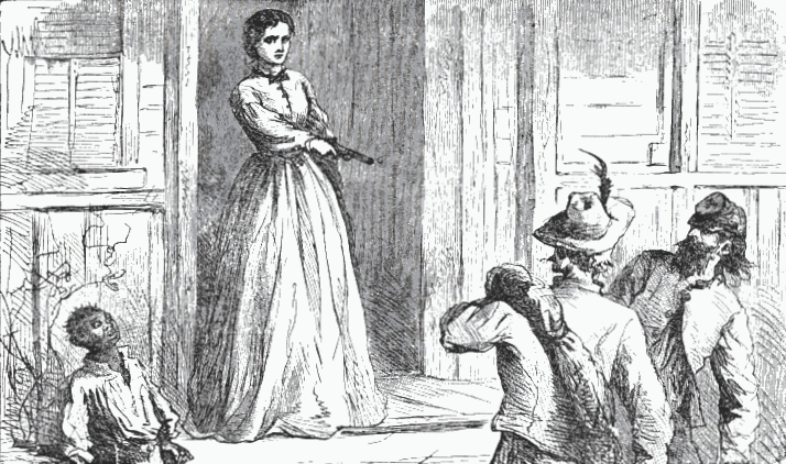 "Come on, Sirs, and take it down!" A depiction of Susan Brownlow, daughter of pro-Union newspaper editor William G. Brownlow, fending off Confederate soldiers who had threatened to take down the American flag flying over the Brownlows' house on East Cumberland Avenue in Knoxville, Tennessee, in 1861.